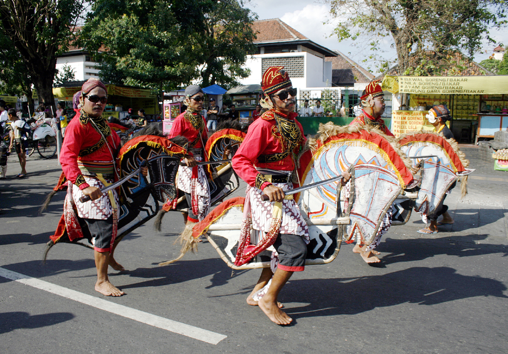 Kuda Lumping also called "Jaran Kepang", is a traditional Javanese dance depicting a group of troops riding horses. The dance employs horse made from woven bamboo. This dance was performed on Malioboro street, Yogyakarta, during a festival.